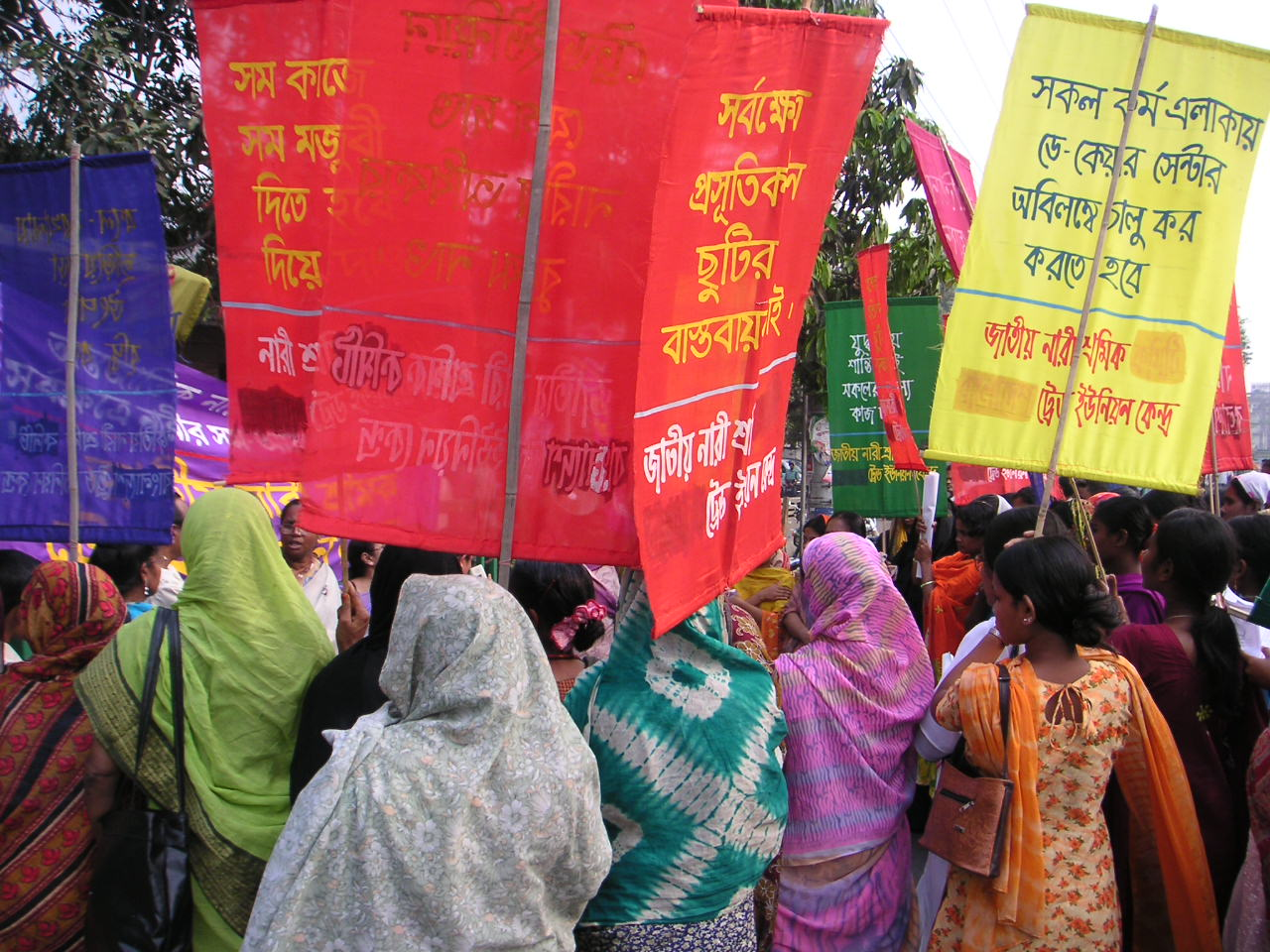 March 8 rally in Dhaka, organized by Jatiyo Nari Shramik Trade Union Kendra (National Women Workers Trade Union Centre), an organization to the Bangladesh Trade Union Kendra. Photo: Soman